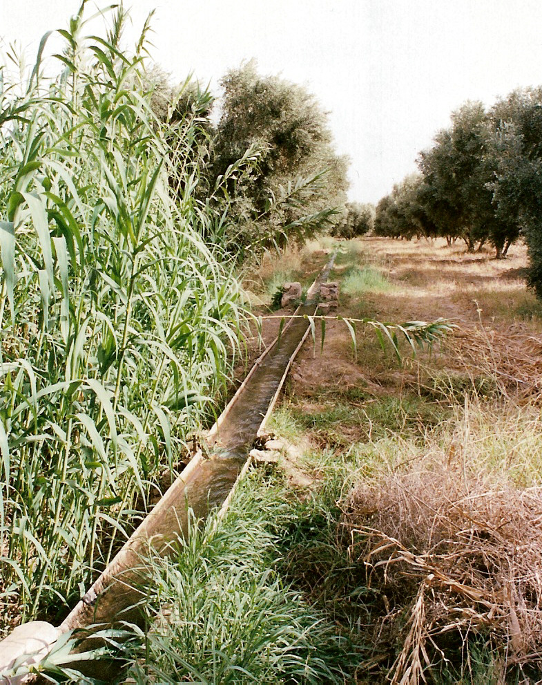 Rudimentary irrigation system (seguia) in Aït Iazza, Morocco (not far from Taroudant.)